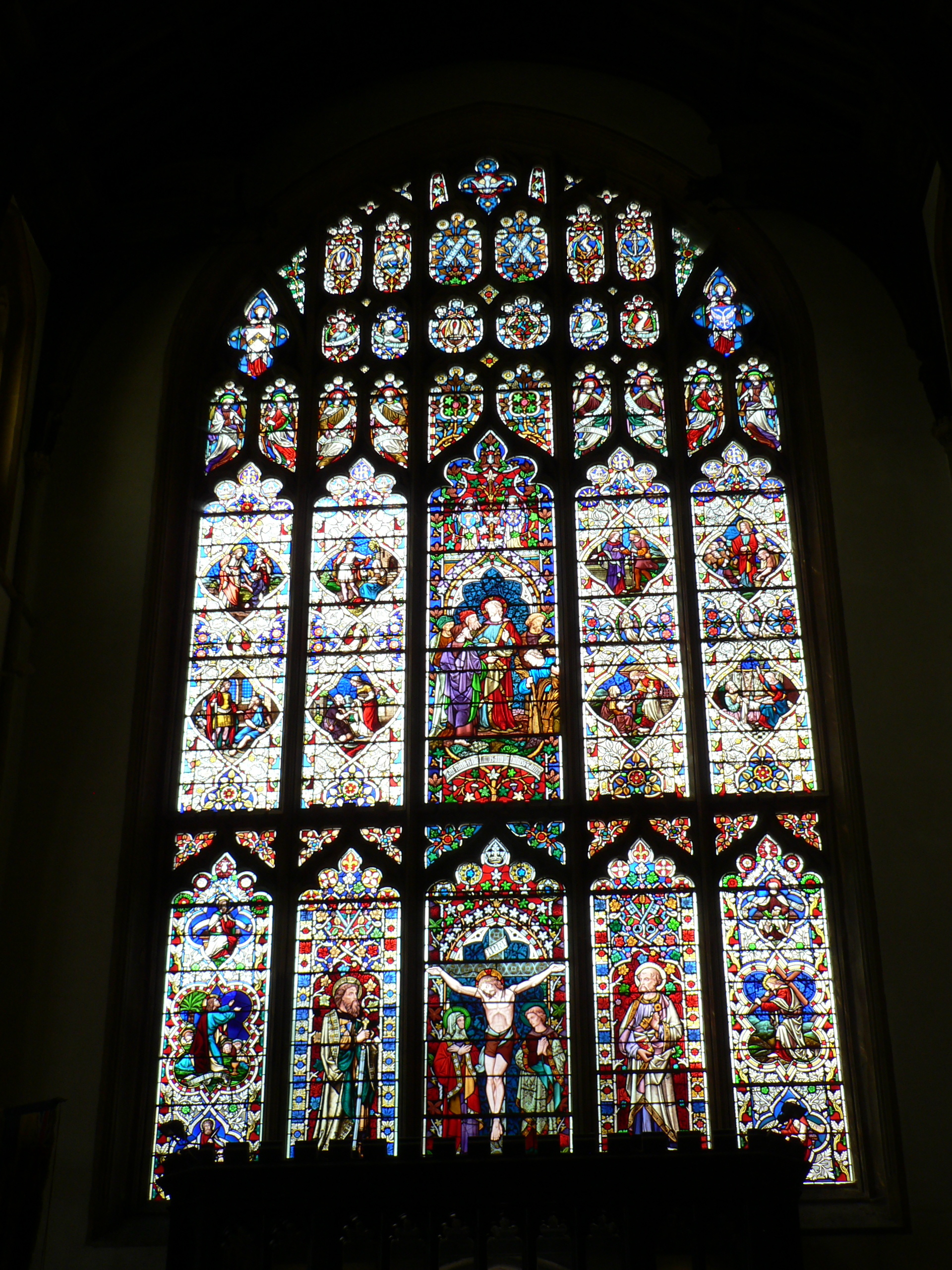 West window (largest parish west window in Britain) of St Mary's in Bury St Edmunds